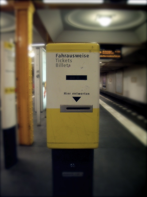 Berlin U-Bahn ticket validating machine